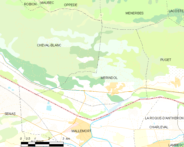 Map of French municipality Mérindol